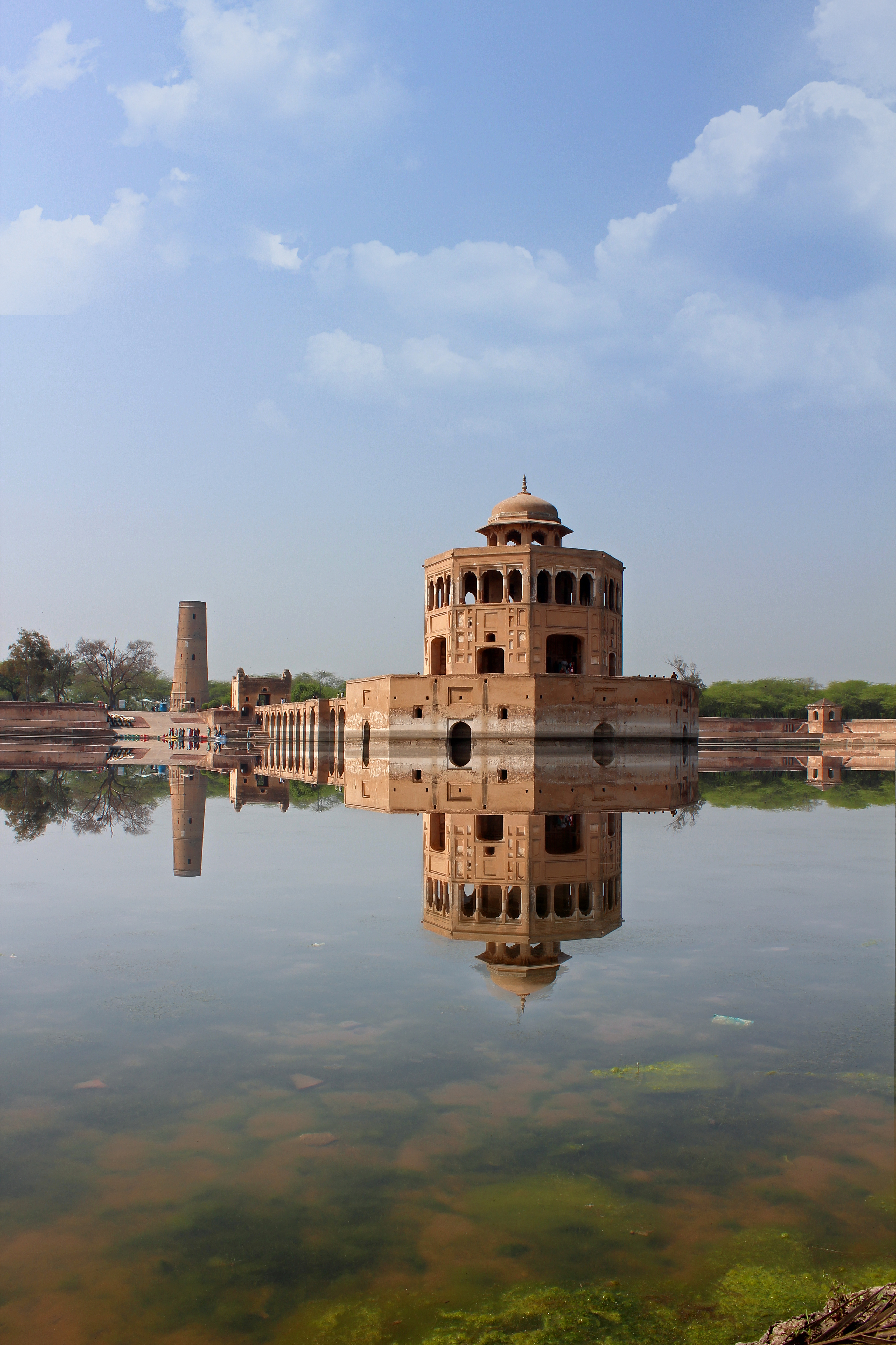 Hiran Minar and Tank This is a photo of a monument in Pakistan identified as the PB-145